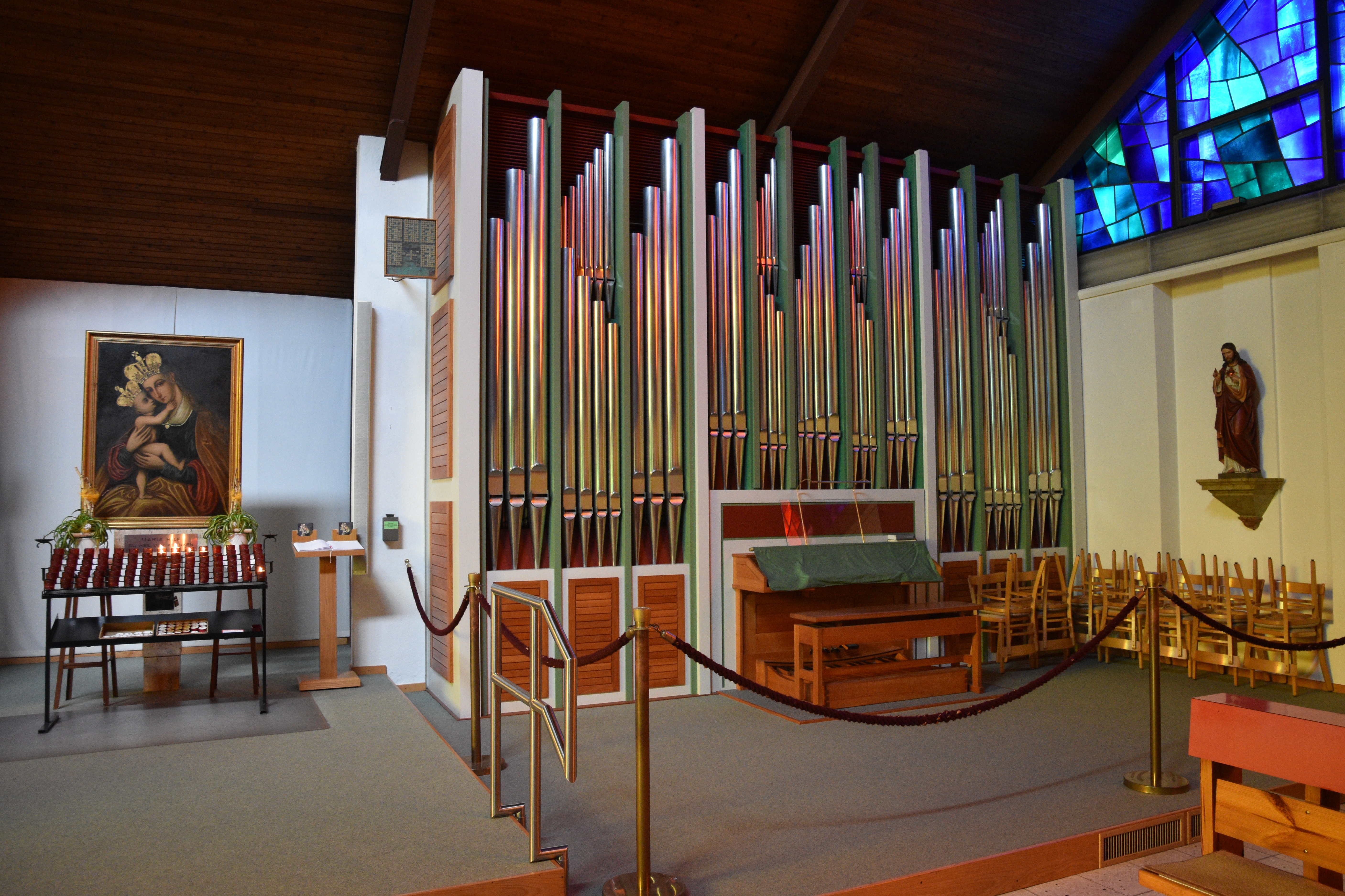 Saint Mary Church (Bad Schönau) - Interior